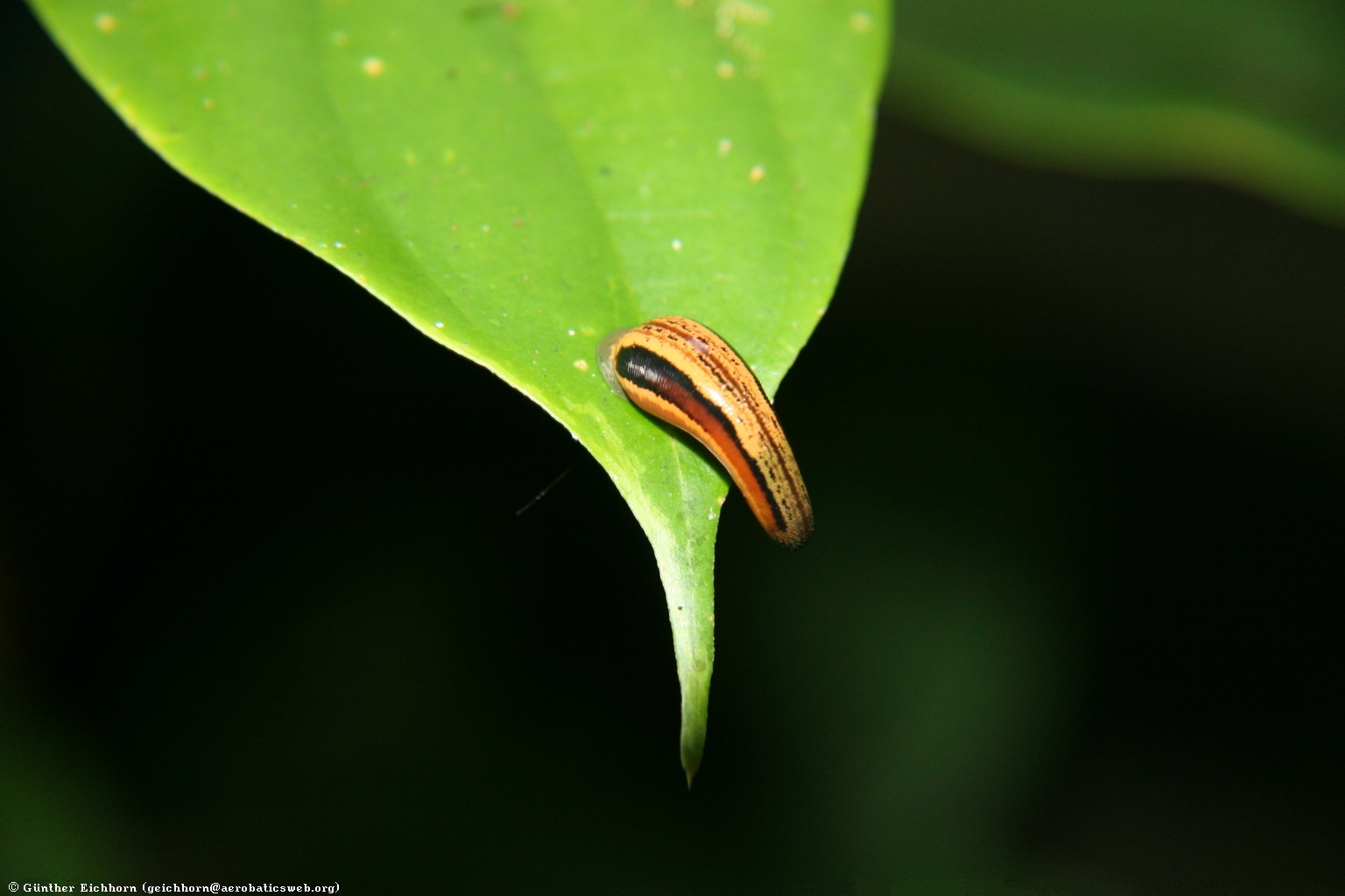 Tiger Leech (Haemadipsa picta).